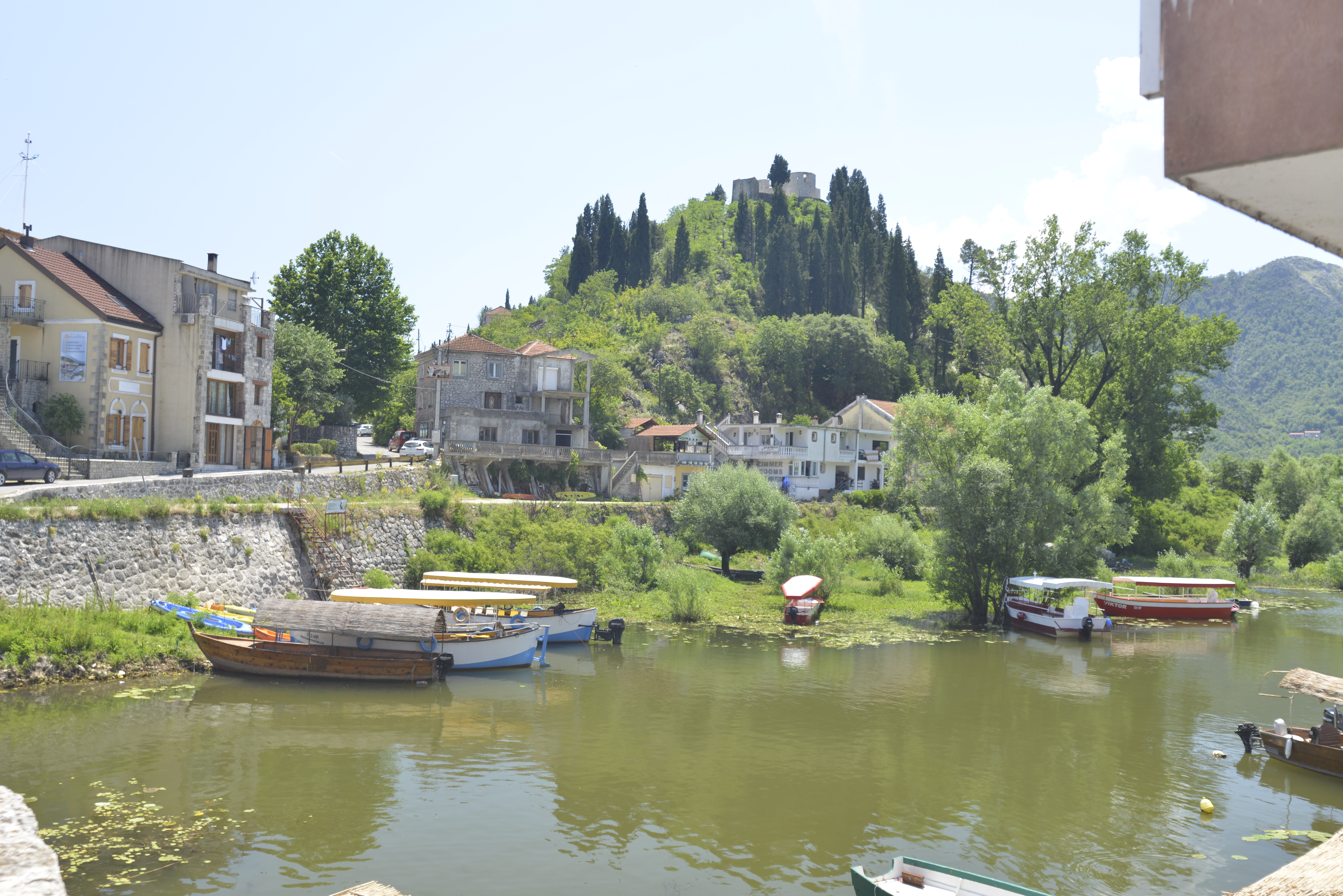 Skadar Lake, Montenegro